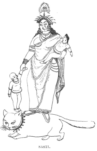 Shasti, used in the book Hindu Mythology, Vedic and Puranic, by W.J. Wilkins